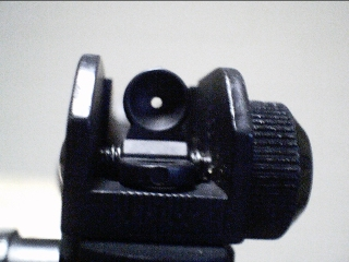 Civilian AR-15 target sights have an aperture between 1 to 1.15 mm (0.040-0.045"). The aperture on AR-15 military sights have a day aperture of approximately 1.8 mm (0.070"), and also a night setting with a larger 5 mm aperture (0.200"), and as such the military sight is not stricly a diopter sight.